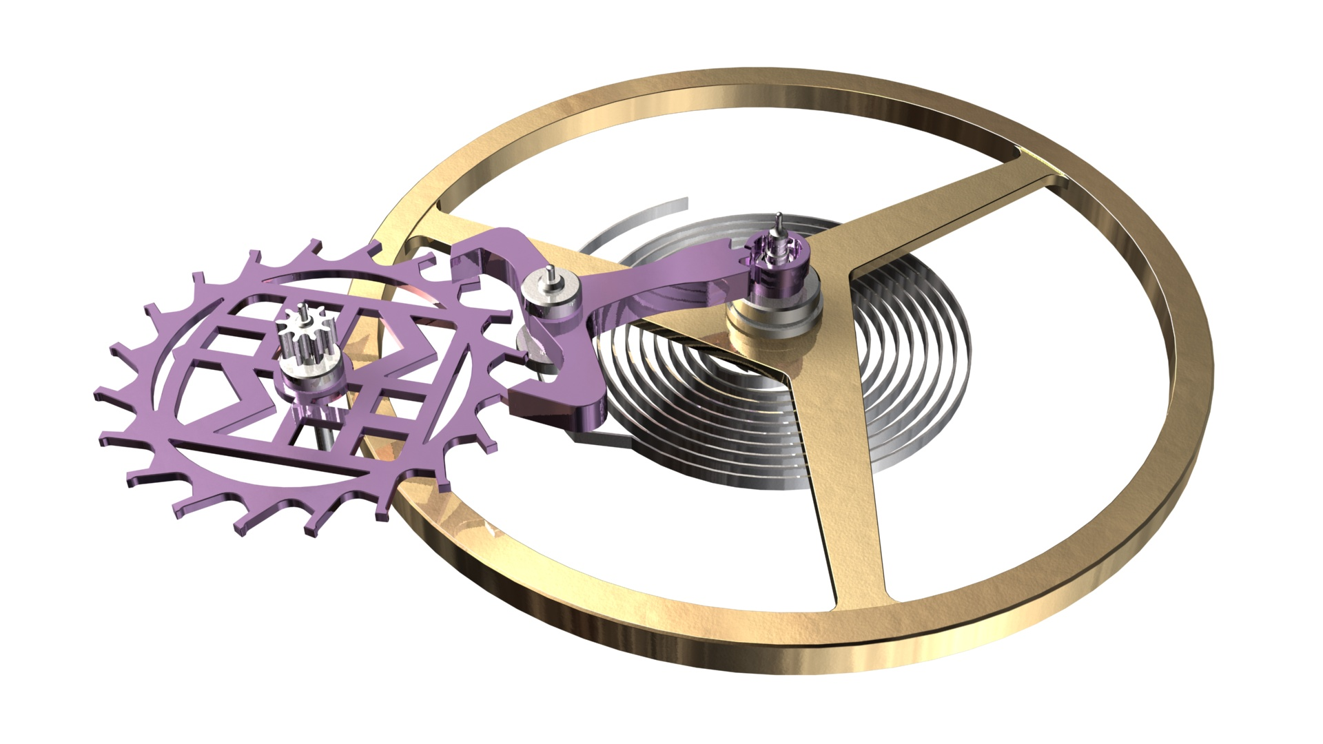 Featured in the Frederique Constant Heart Beat FC-945 Silicium Calibre, this silicium escapement uses less power and maintains amplitude more efficiently than a standard lever escapement, because it functions without lubrication.